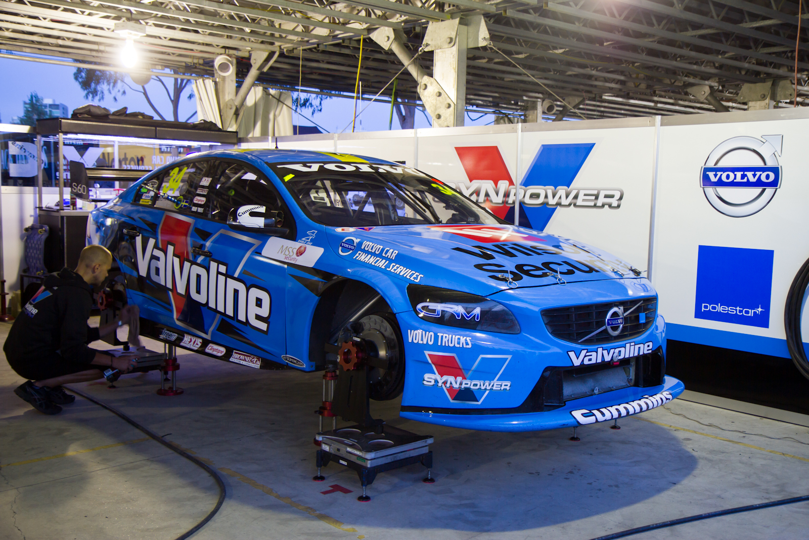 2014 Australian F1 Grand Prix